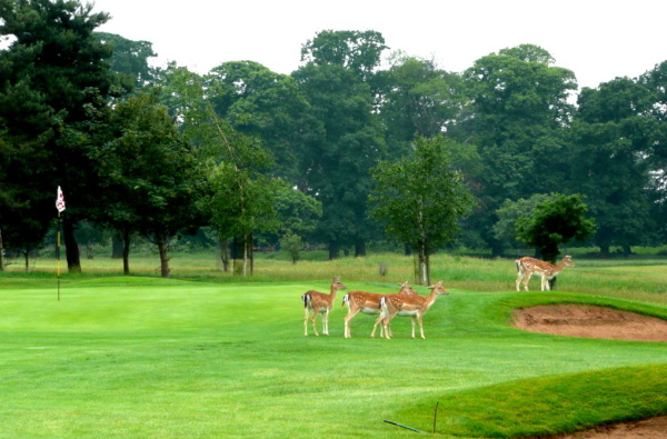 Deer on the 8th at Belton Park Golf Club in its Centenary Year The tranquillity of Belton Park belies its history. It was here that the men of the Machine Gun Corps were trained prior to departure for France during the first World War.